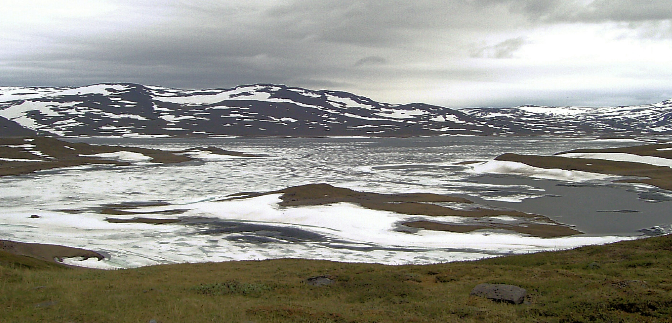 Guolasjávri, Lake of Troms, Norway